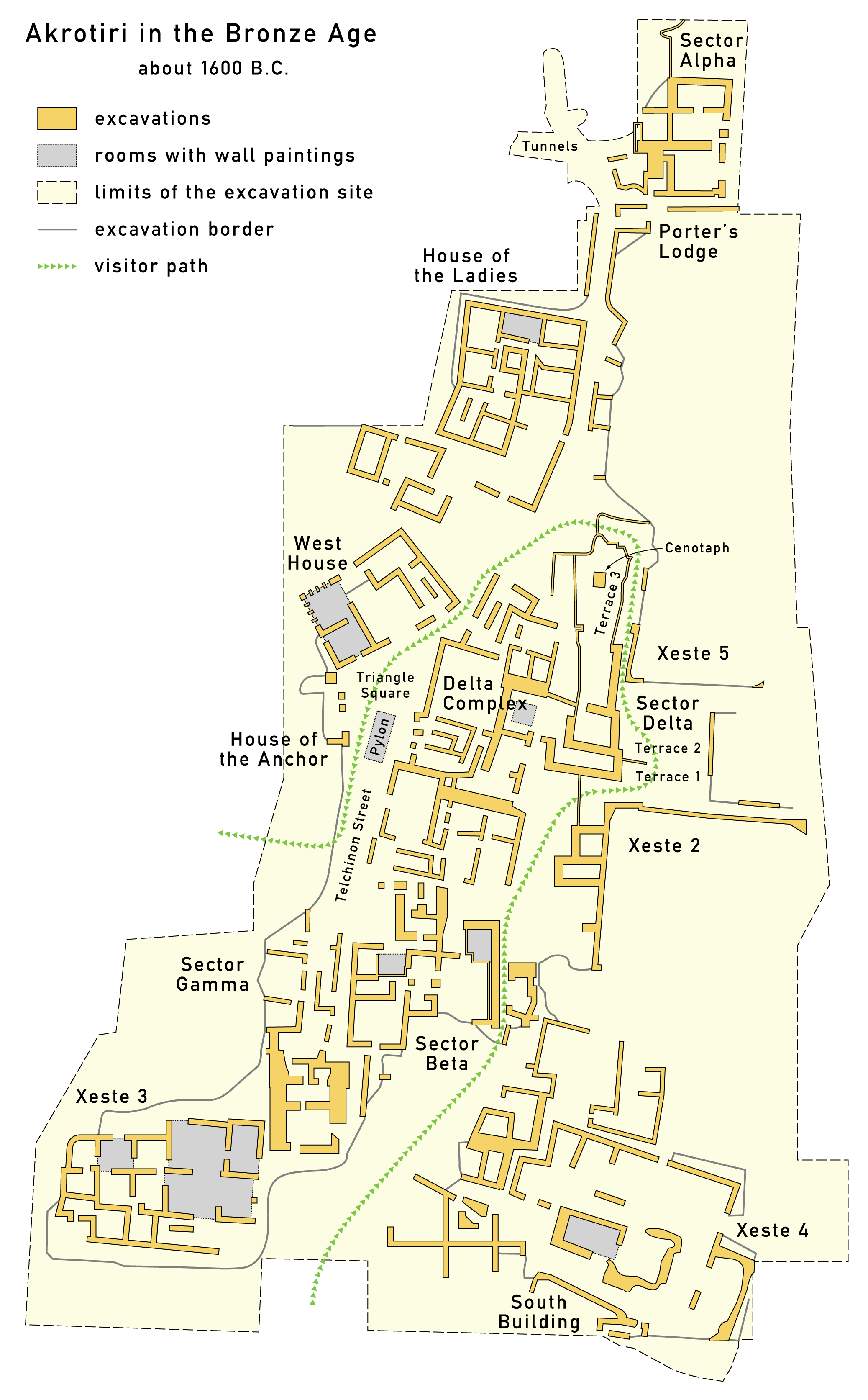 Map of Akrotiri in the Bronze Age, ca. 1600 BC